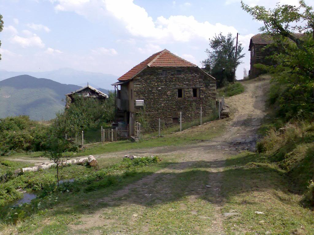 Village of Zvechan, Poreche region, Republic of Macedonia